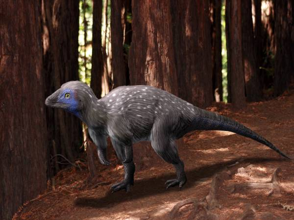 Life reconstruction of Kulindadromeus zabaikalicus